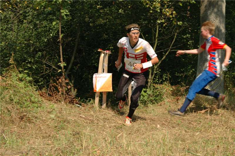 World Orienteering Championships 2007 in Kiev, Ukraine. On photo Swiss Simone Niggli-Luder and Norwegian Marianne Andersen.